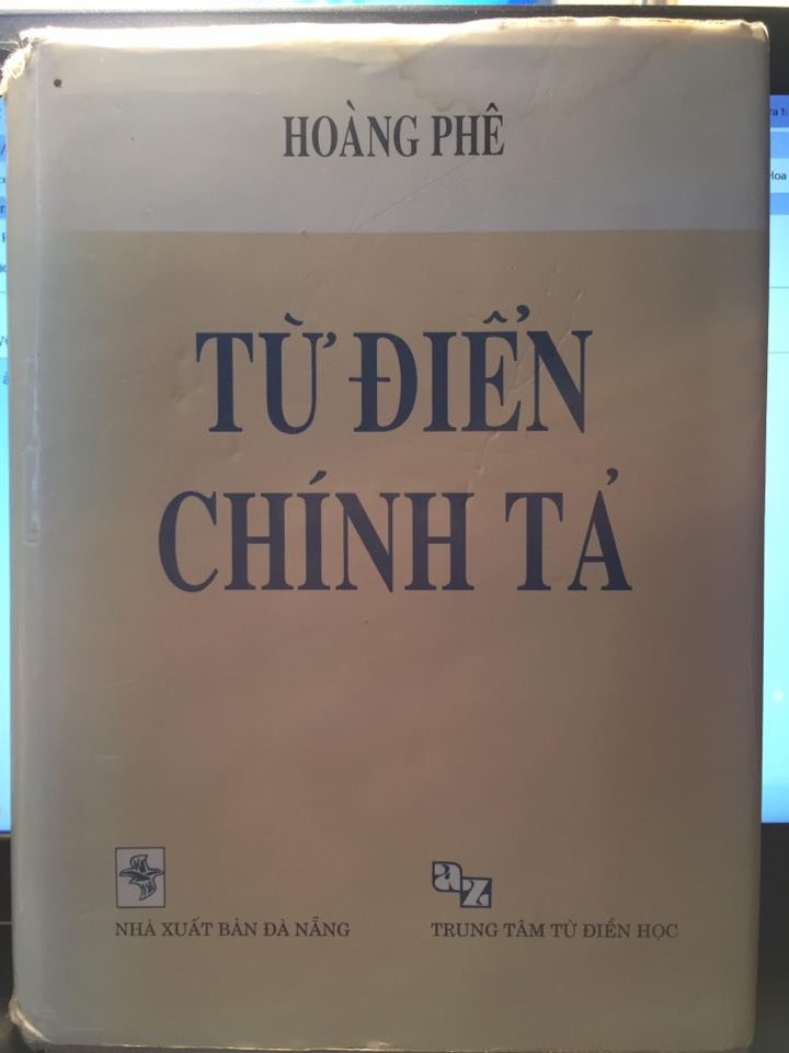 A Dictionary of the Vietnamese Language Orthography